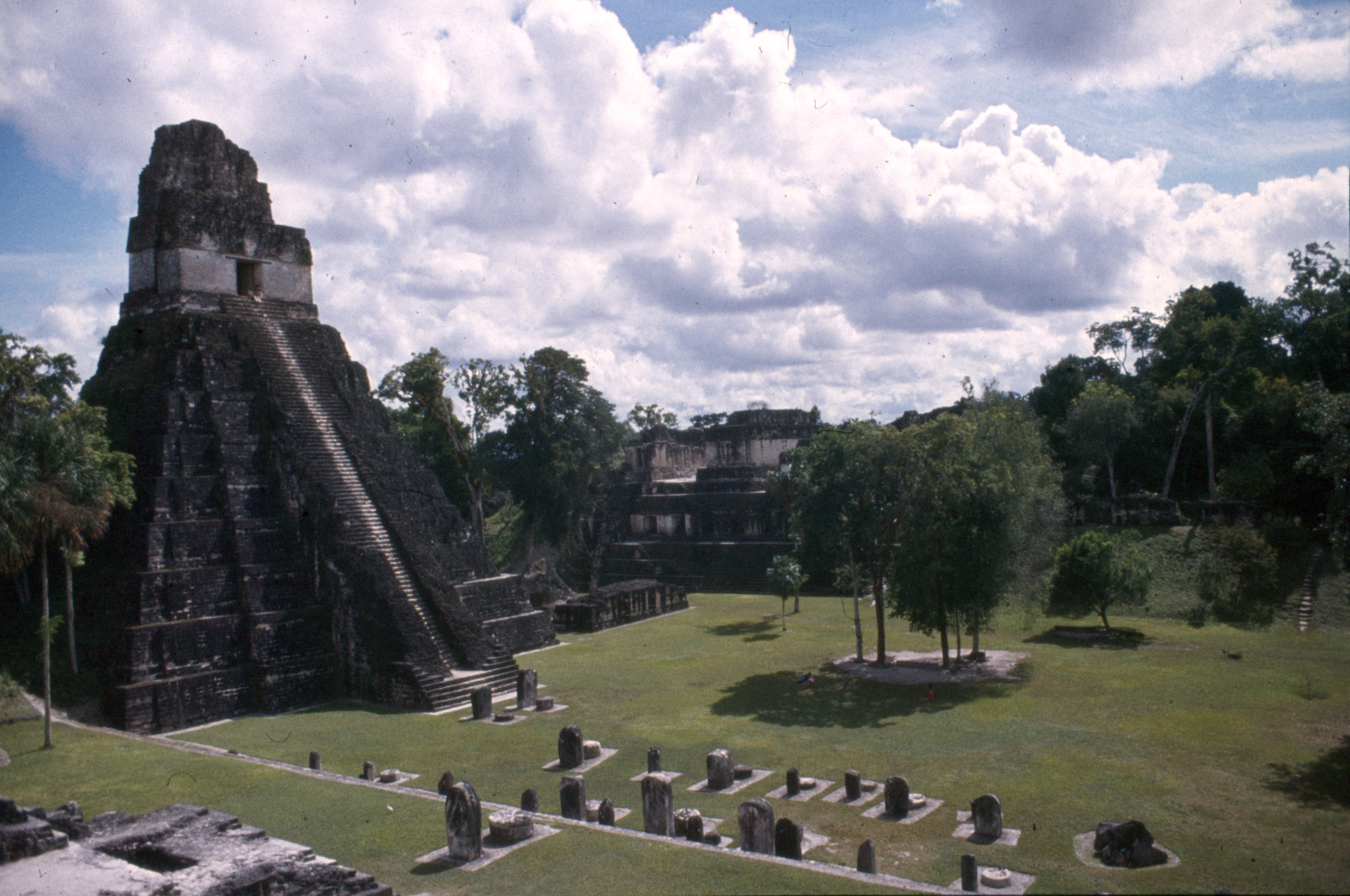 Tikal in Guatemala